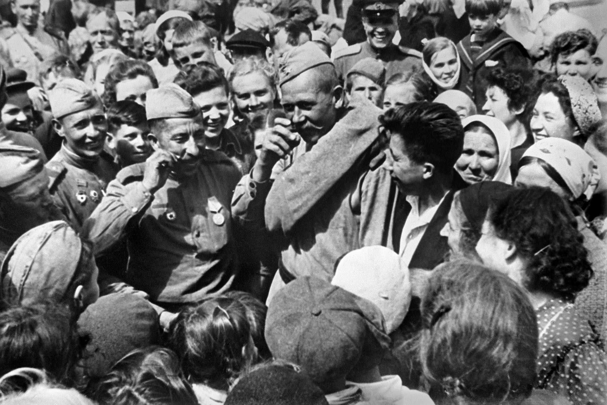 “Meeting of demobbed troops at the Rzhevsky Railway Station”. Meeting of demobbed troops at the Rzhevsky (now Rizhsky) Railway Station.